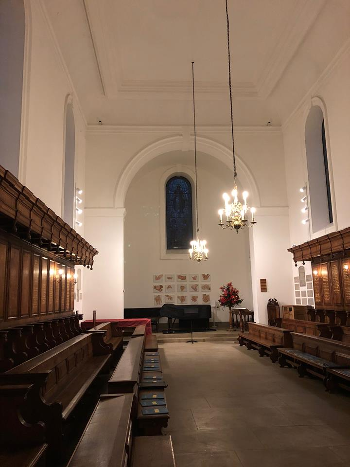 Somerville College Oxford, Chapel inside